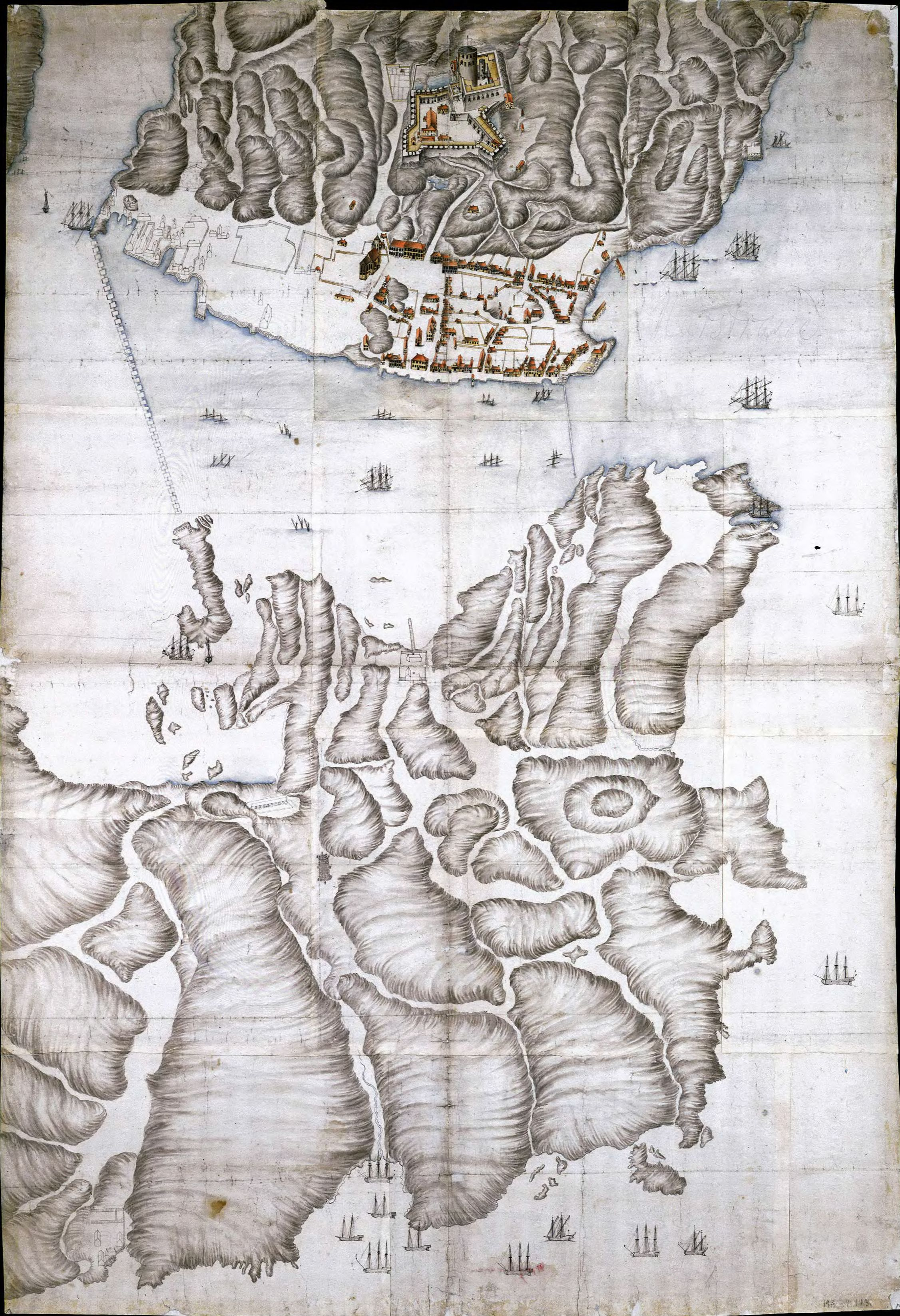 Danish map over the Swedish island Koön, and town Marstrand with fortess Karlsten/Christiansteen, during the danish attack 1719. View from the east.